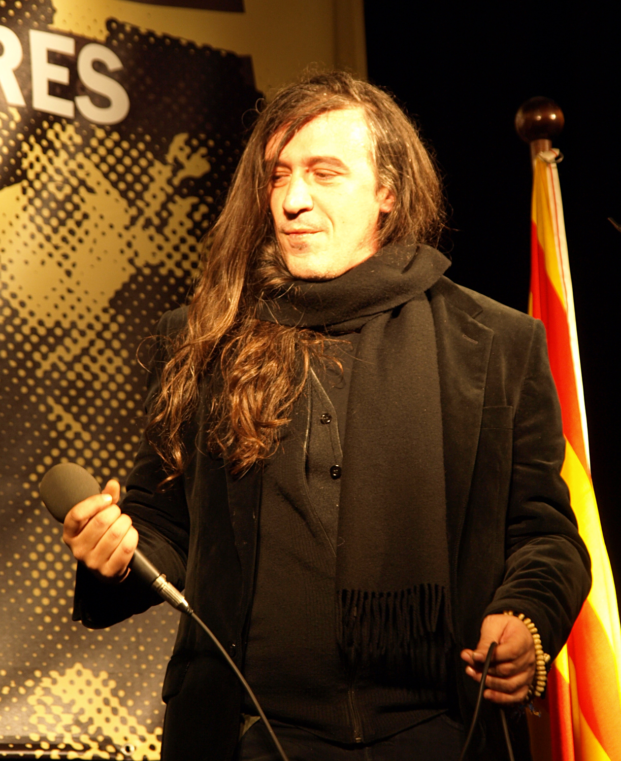 Gerard Quintana - Catalan musician